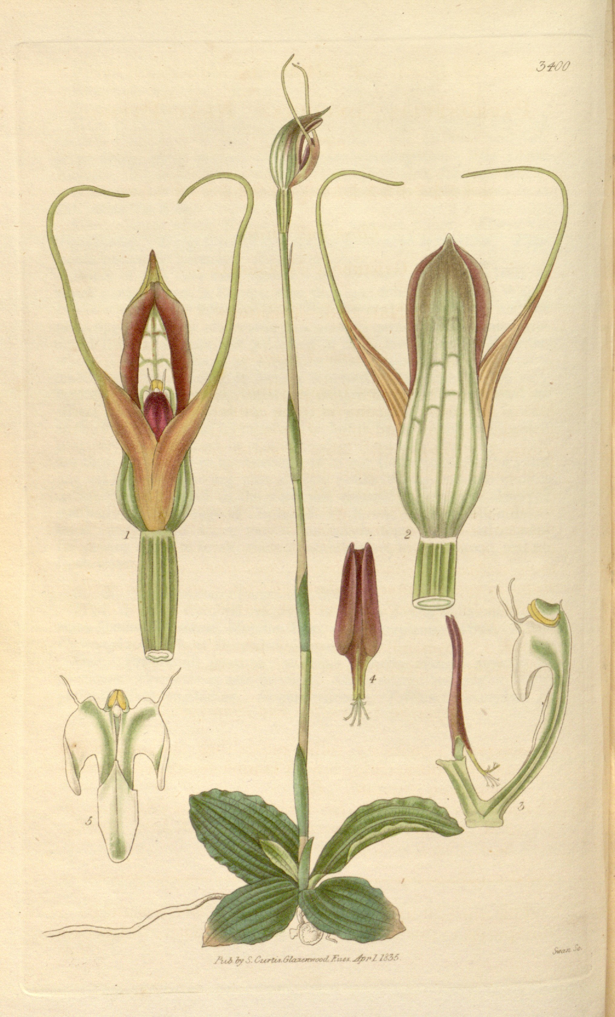 Illustration of Pterostylis concinna